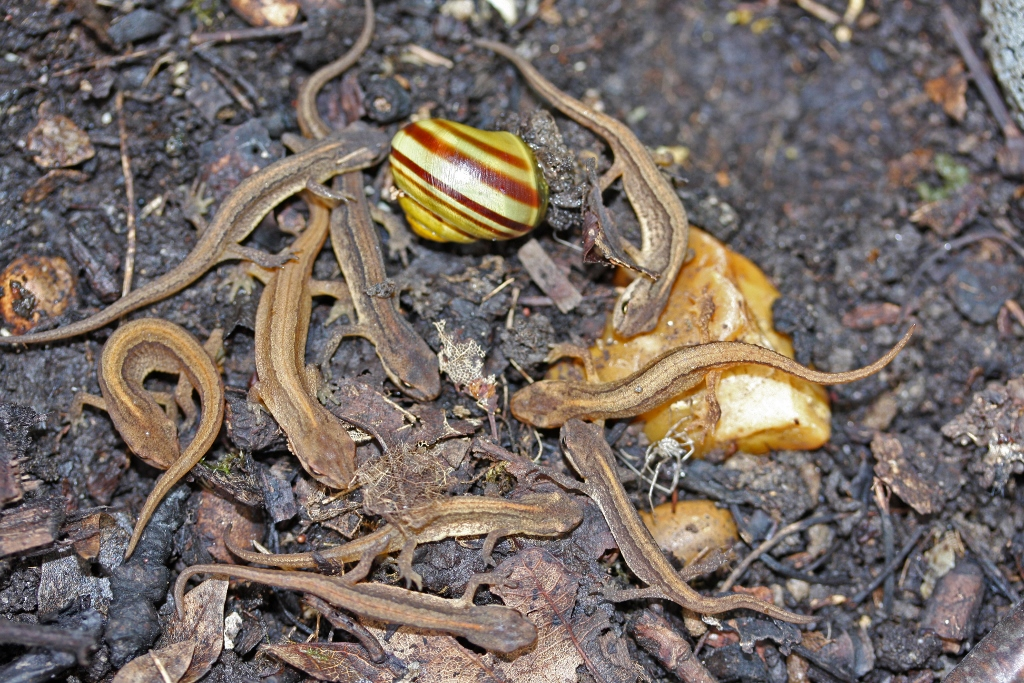 Lea Valley Park, Hertfordshire. This gathering was as I found it under a log, looks like a plan being formulated.